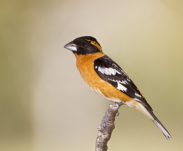 Black-headed Grosbeak